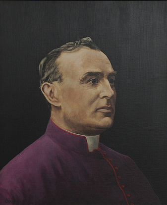 Canon Driscoll